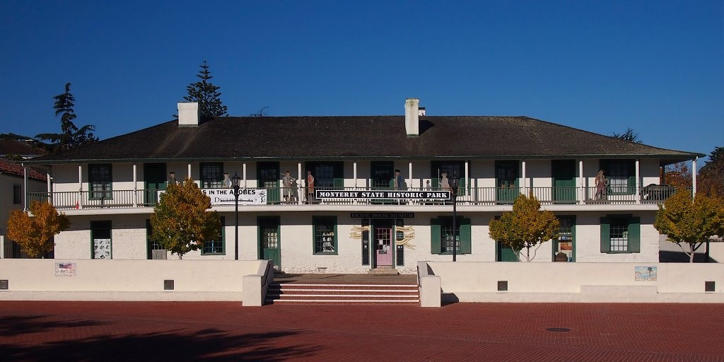 Pacific House Museum, Monterey State Historic Park, Monterey, California, USA. Viewed from the east-southeast.